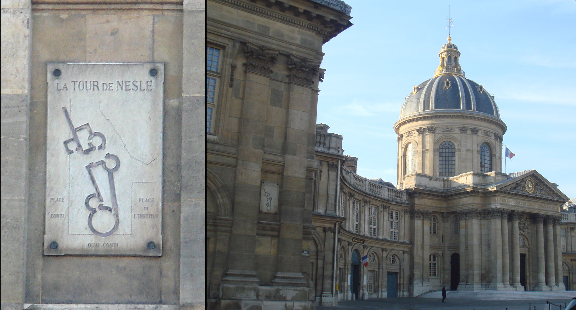 Tour De Nesle plaque, at the Institut, Paris